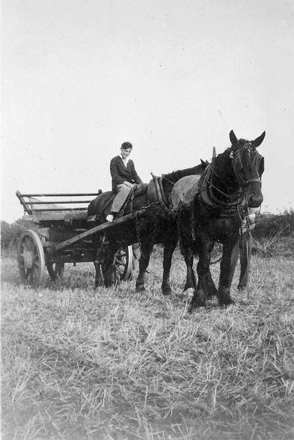 The Haywain